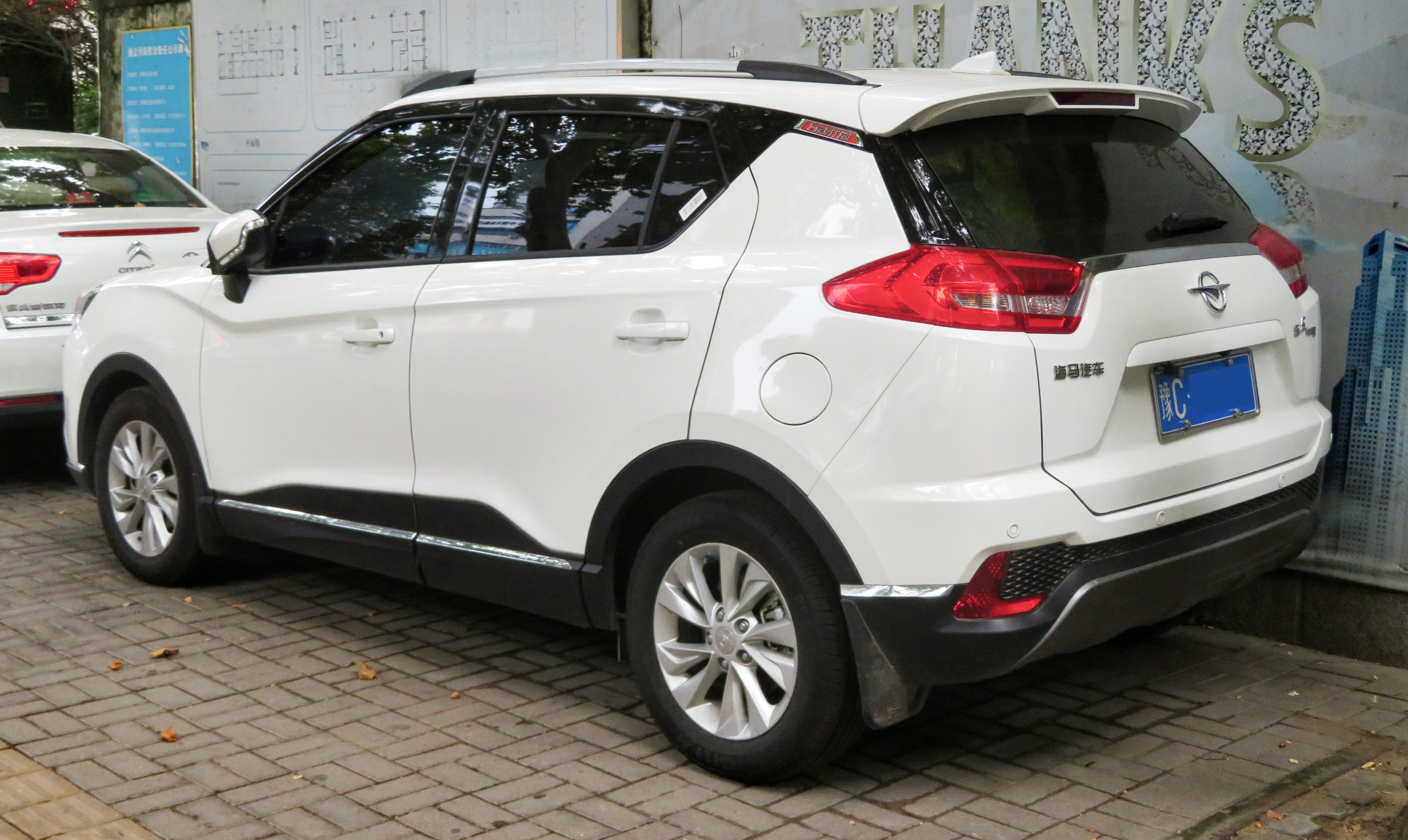 A 2018 Haima S5 Young photographed in Xigong District, Luoyang, Henan province, China